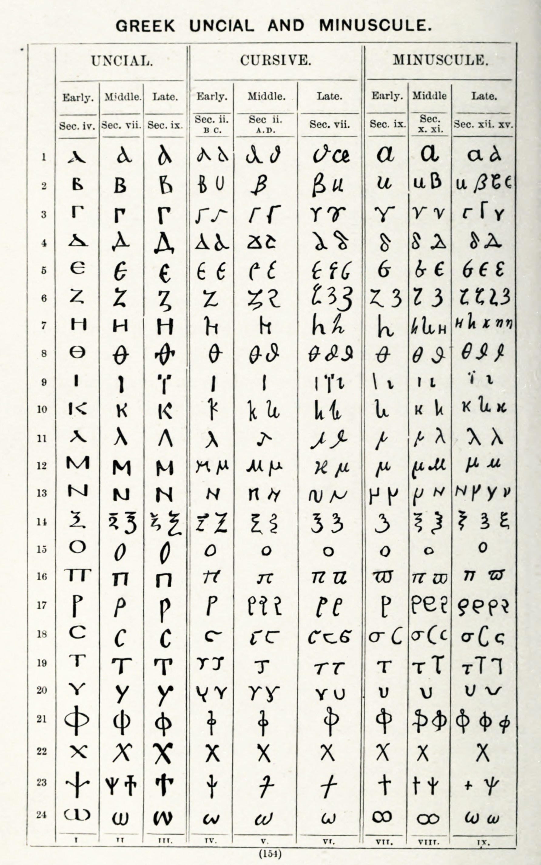 Comparison of different variants of Greek letters dated by late antiquity and Middle Ages